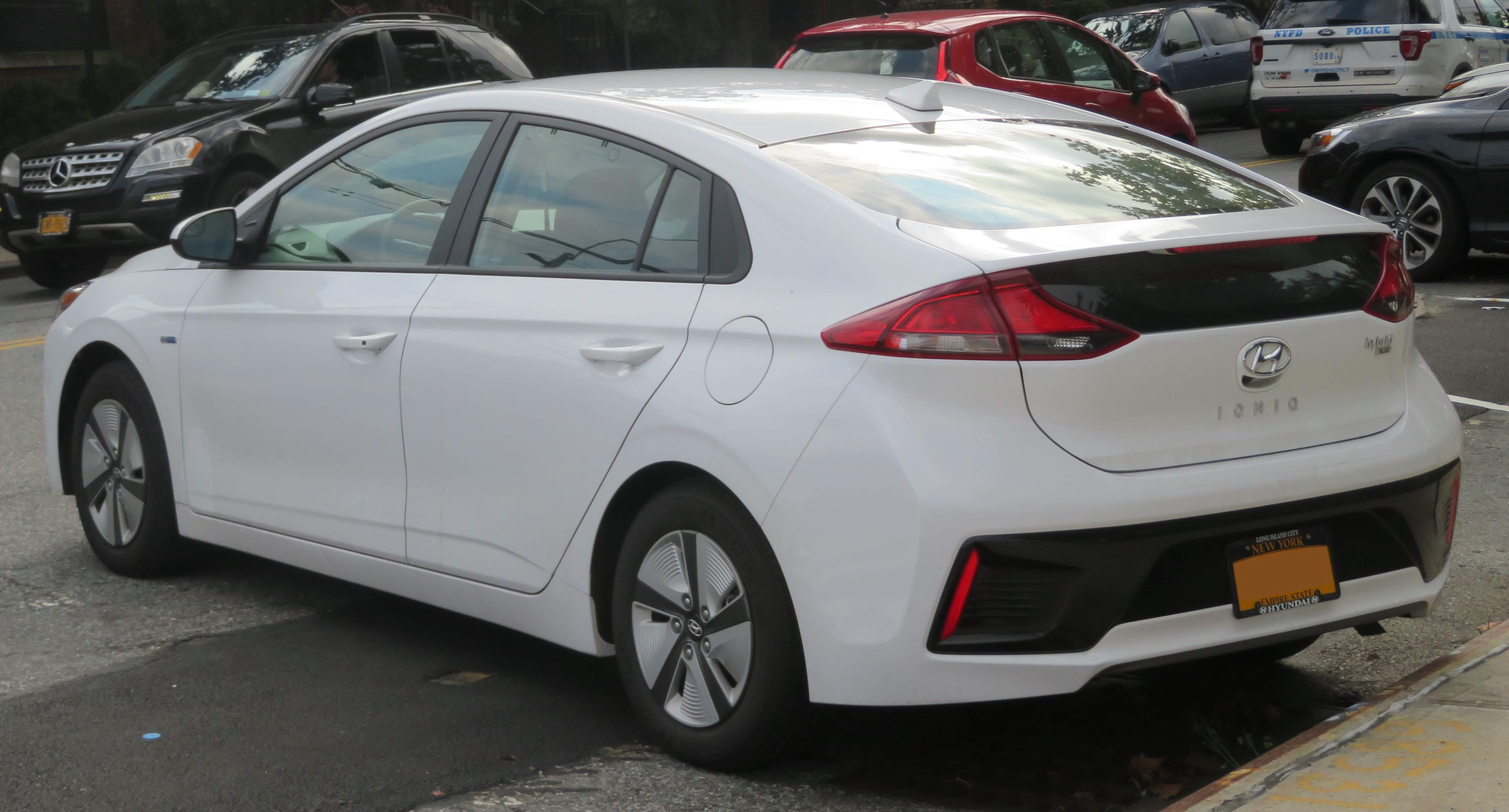 Spotted in Flushing, New York.